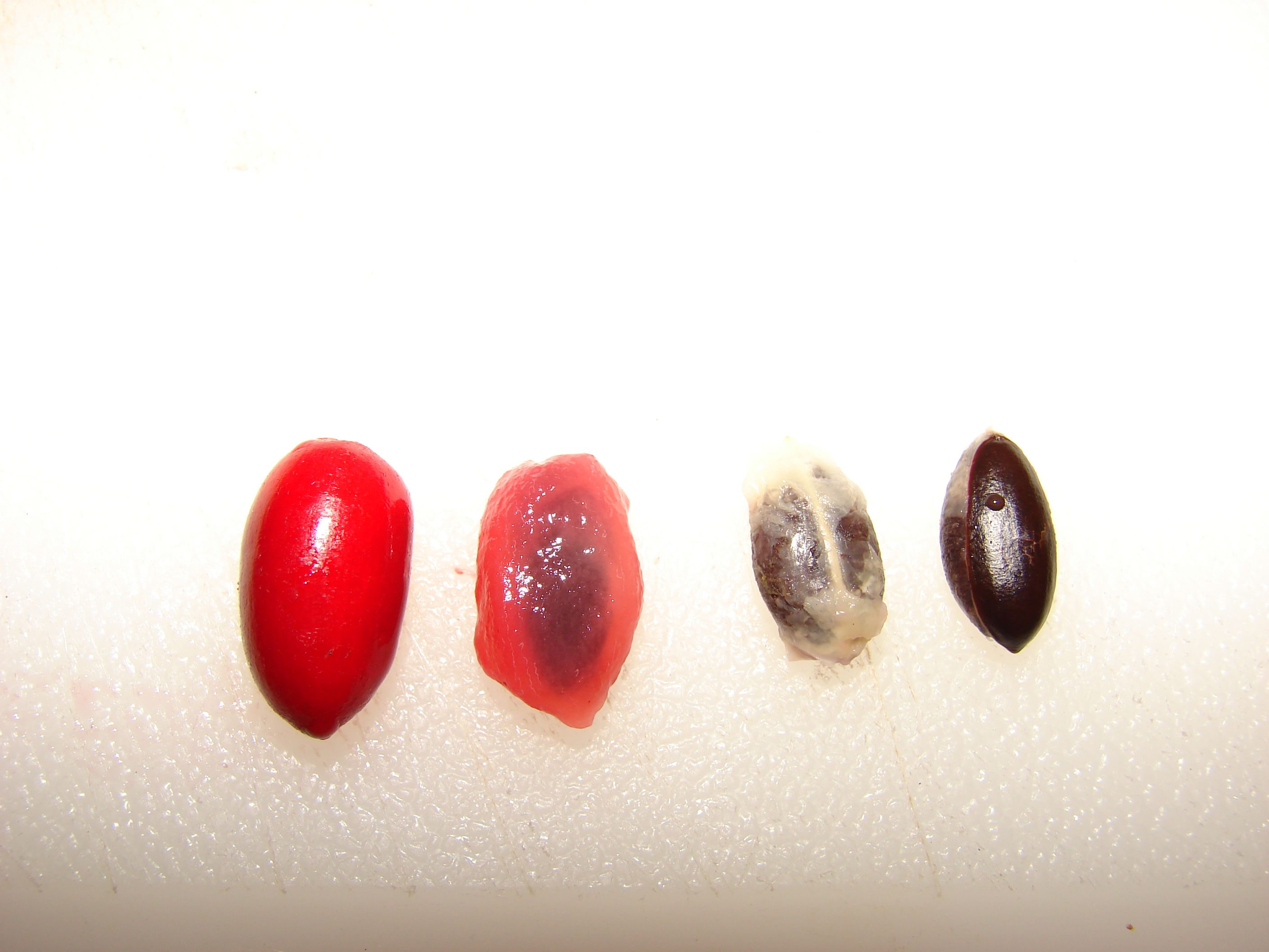 Synsepalum dulcificum (seeds). Location: Maui, Makawao